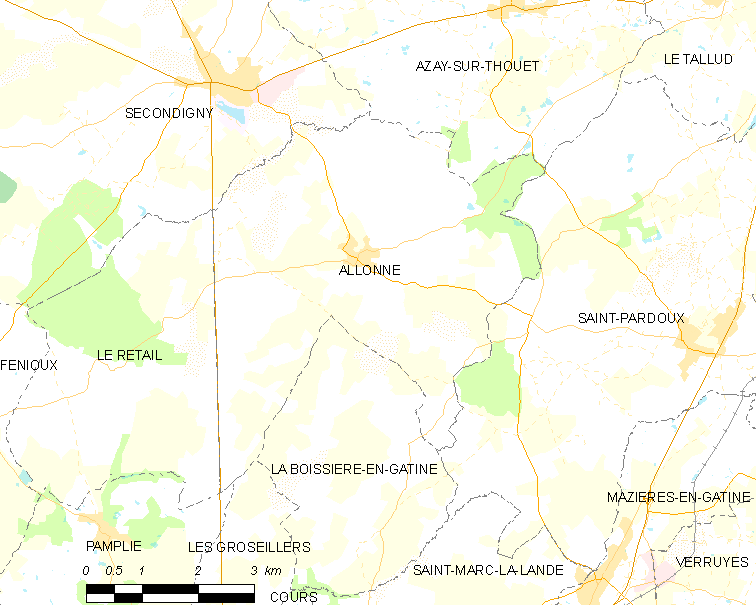 Map of French municipality Allonne